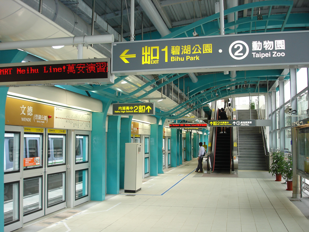 The platform of MRT Wende Station.中文（台灣）: 臺北捷運內湖線文德站月臺。